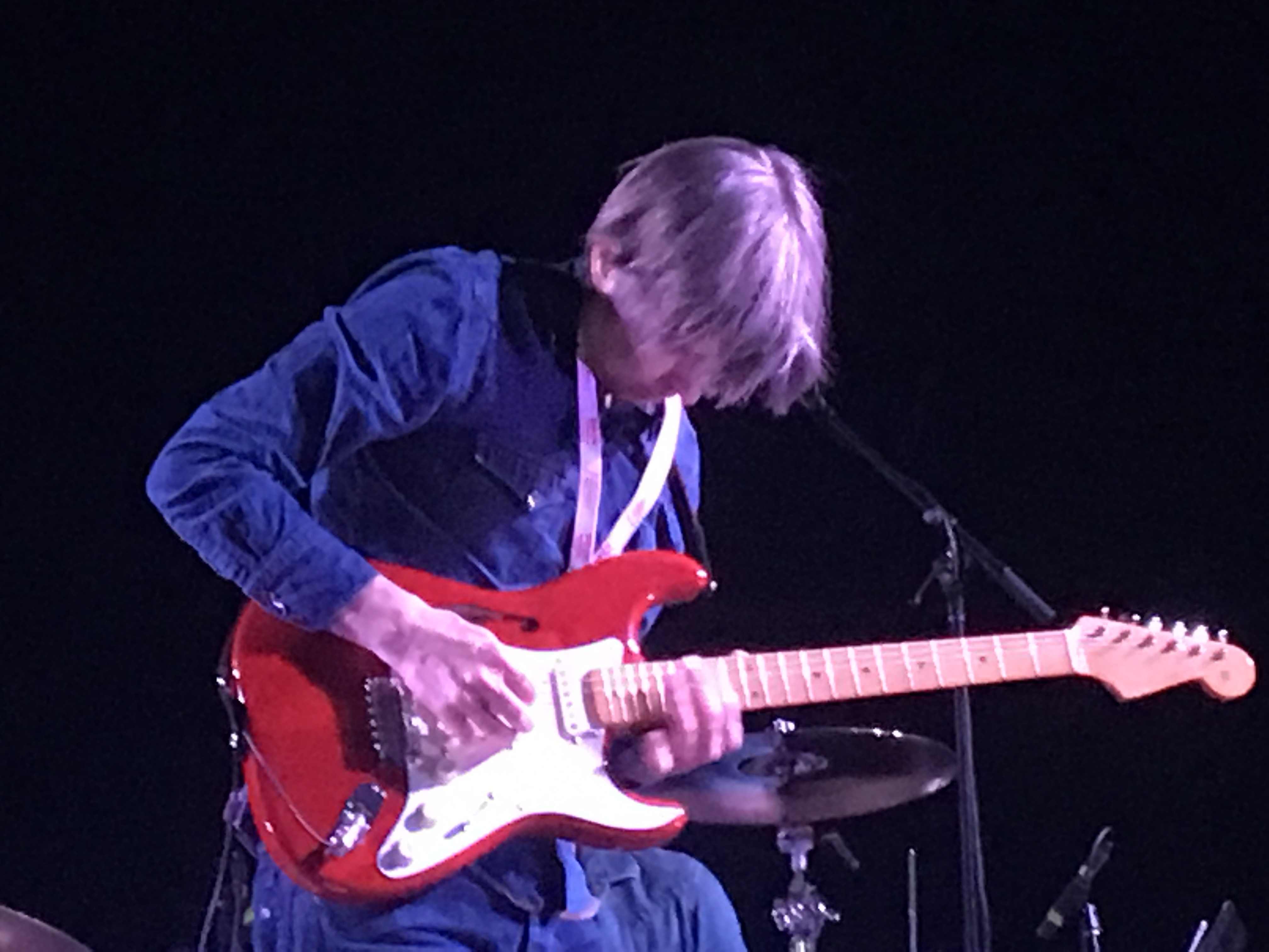 Eric Johnson playing his 2017 signature Fender Stratocaster.